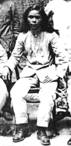 Macario Sacay